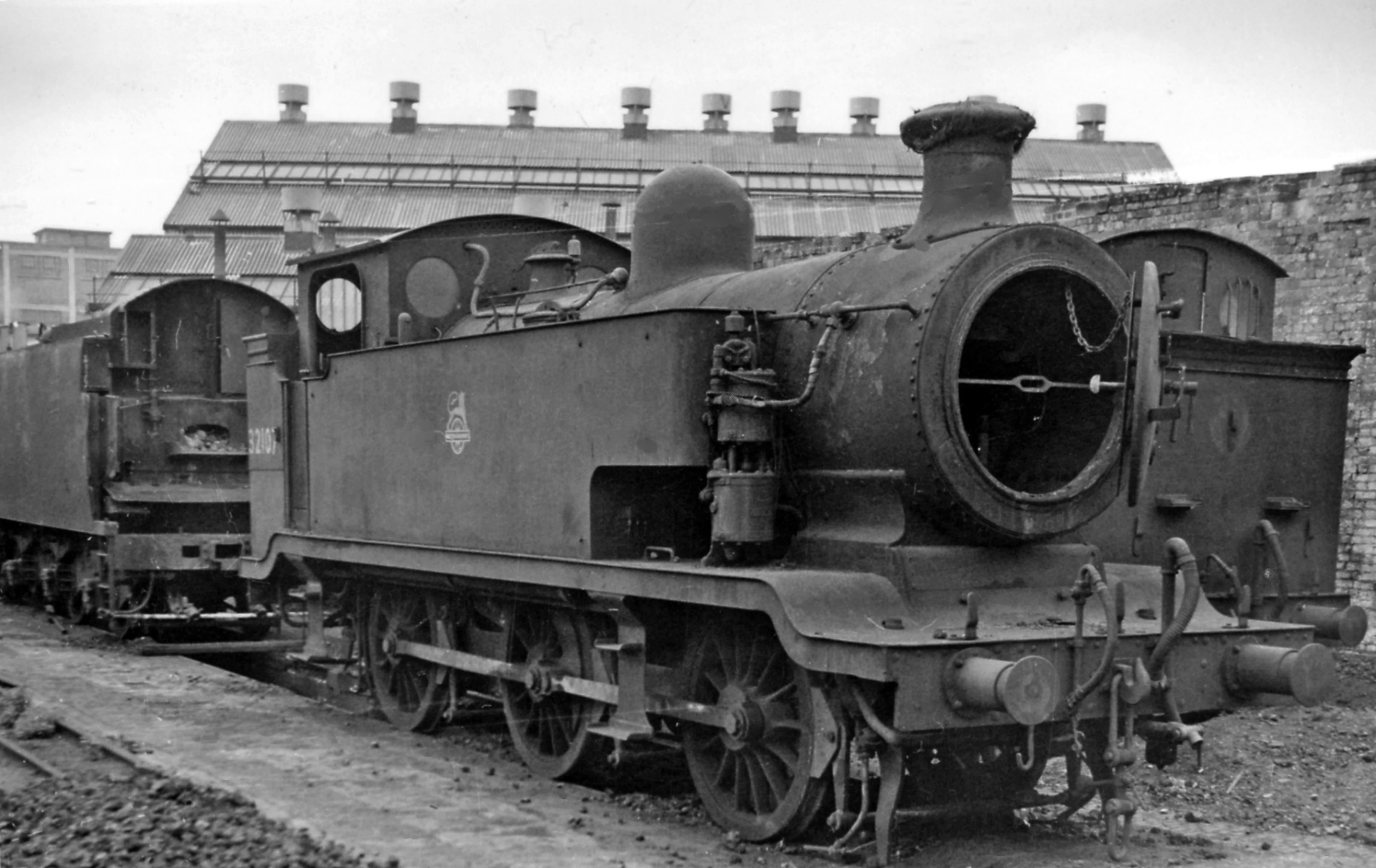 Abandoned ex-LB&SC 0-6-0T at Bricklayer's Arms Depot. L. Billinton class E2 0-6-0T No. 32107 seems in April 1959 to be abandoned but was not actually condemned until 2/61; it was built 3/16. Like most of the other nine of the class, it had worked on shunting and station pilot duties in the London area.